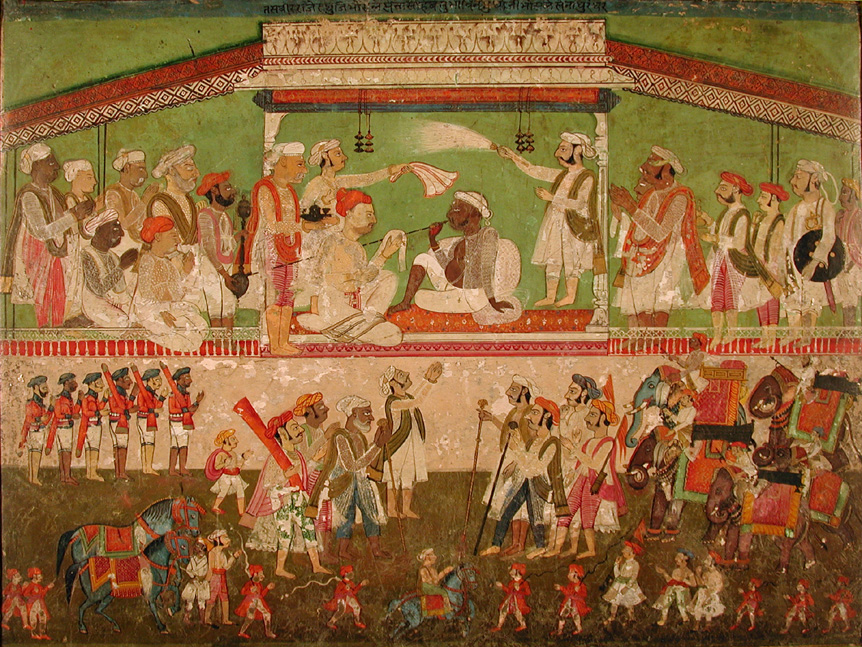 Raghuji Bhonsle II presides over a military review